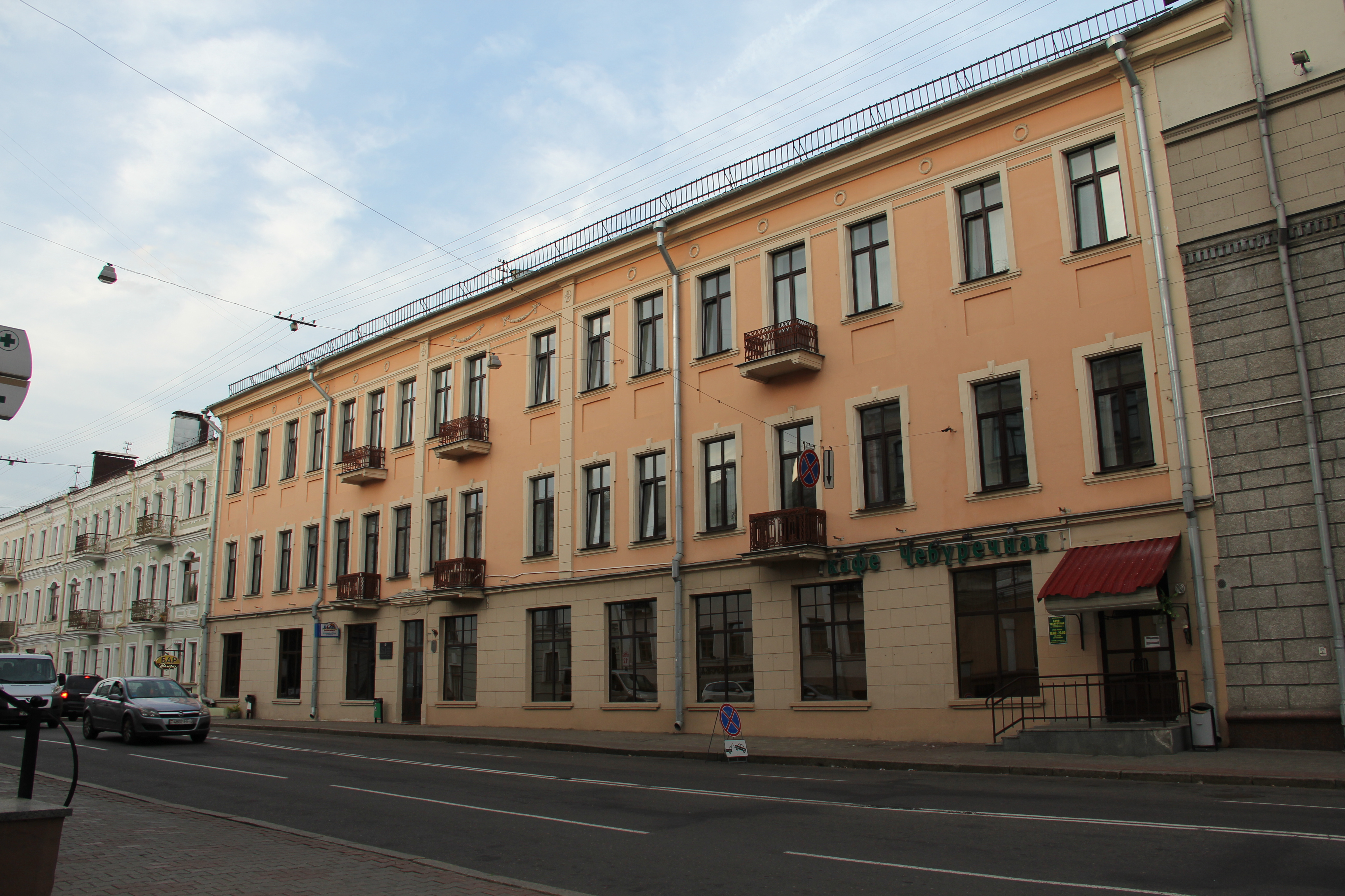 Беларуская (тарашкевіца): Будынак. г. Менск This is a photo of Belarusian heritage monument. Reference number: 713Г000022 ( WLM)